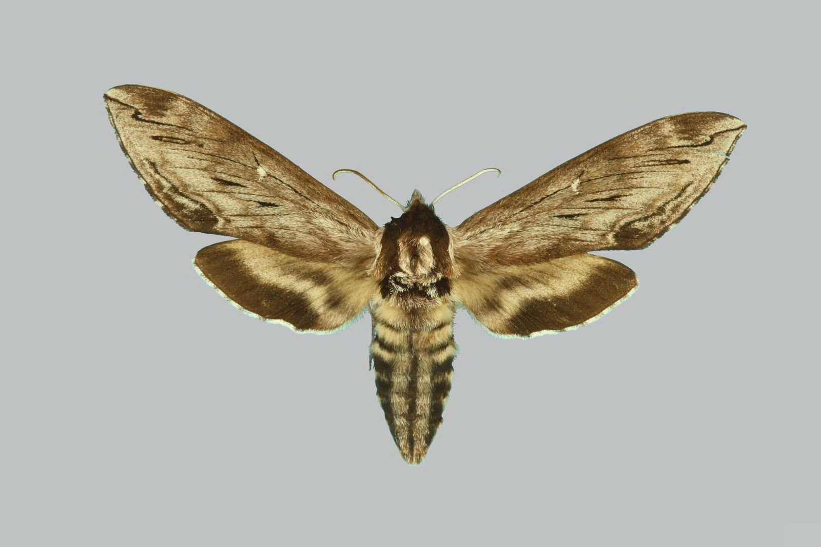 Sphinx poecila poecila, female, upperside. Canada, Prince Edward Island